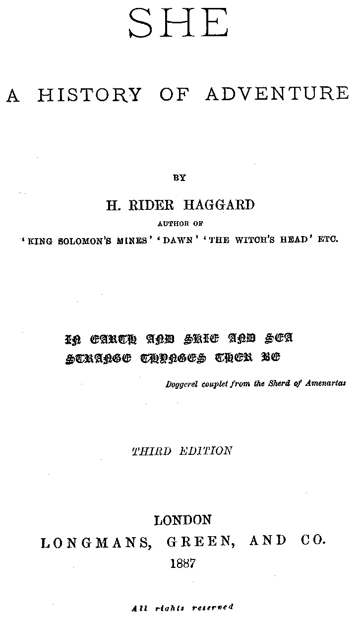 Title page of She published by Longmans and Company in London in 1887.